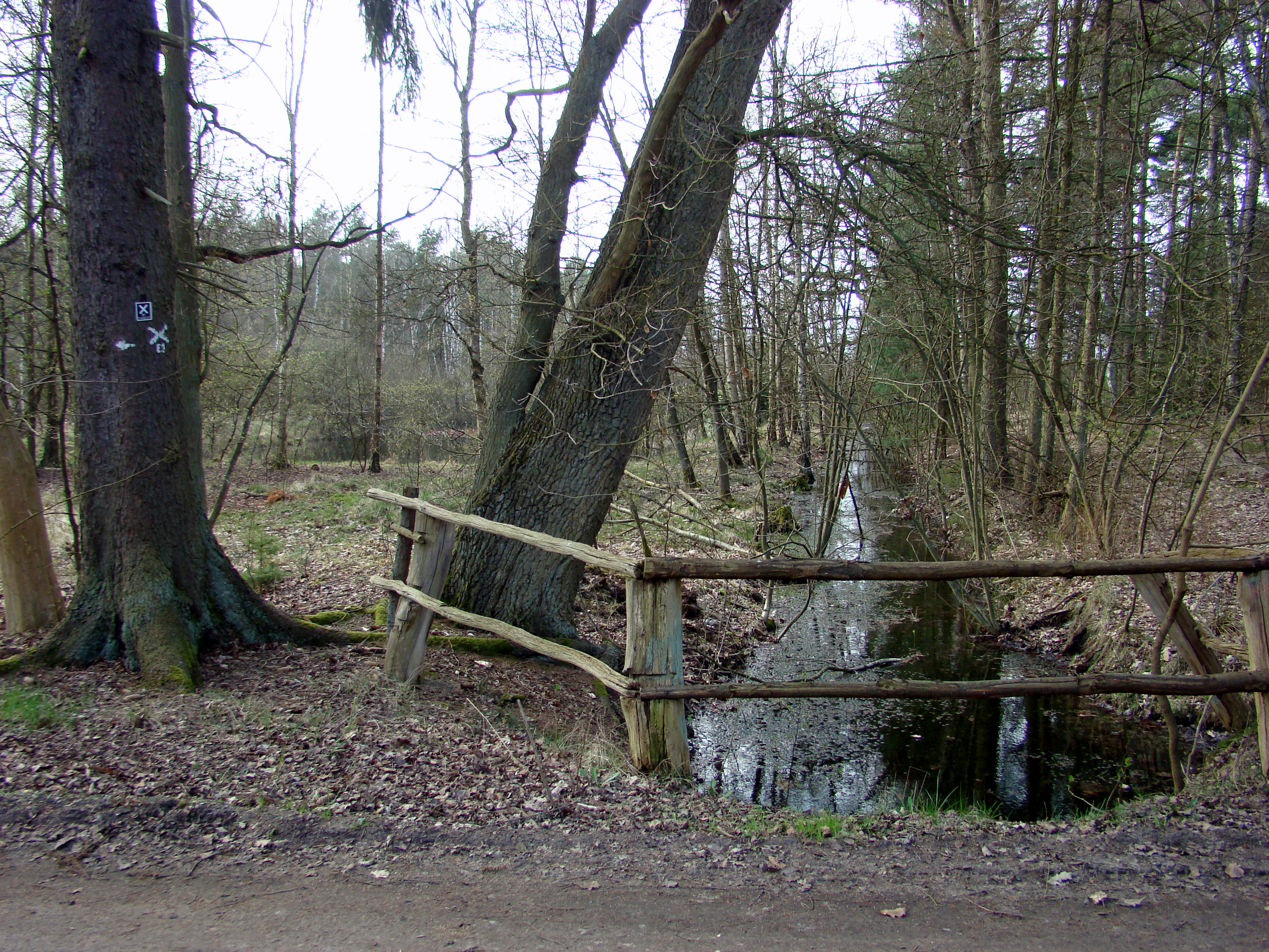 The Kohlenbach